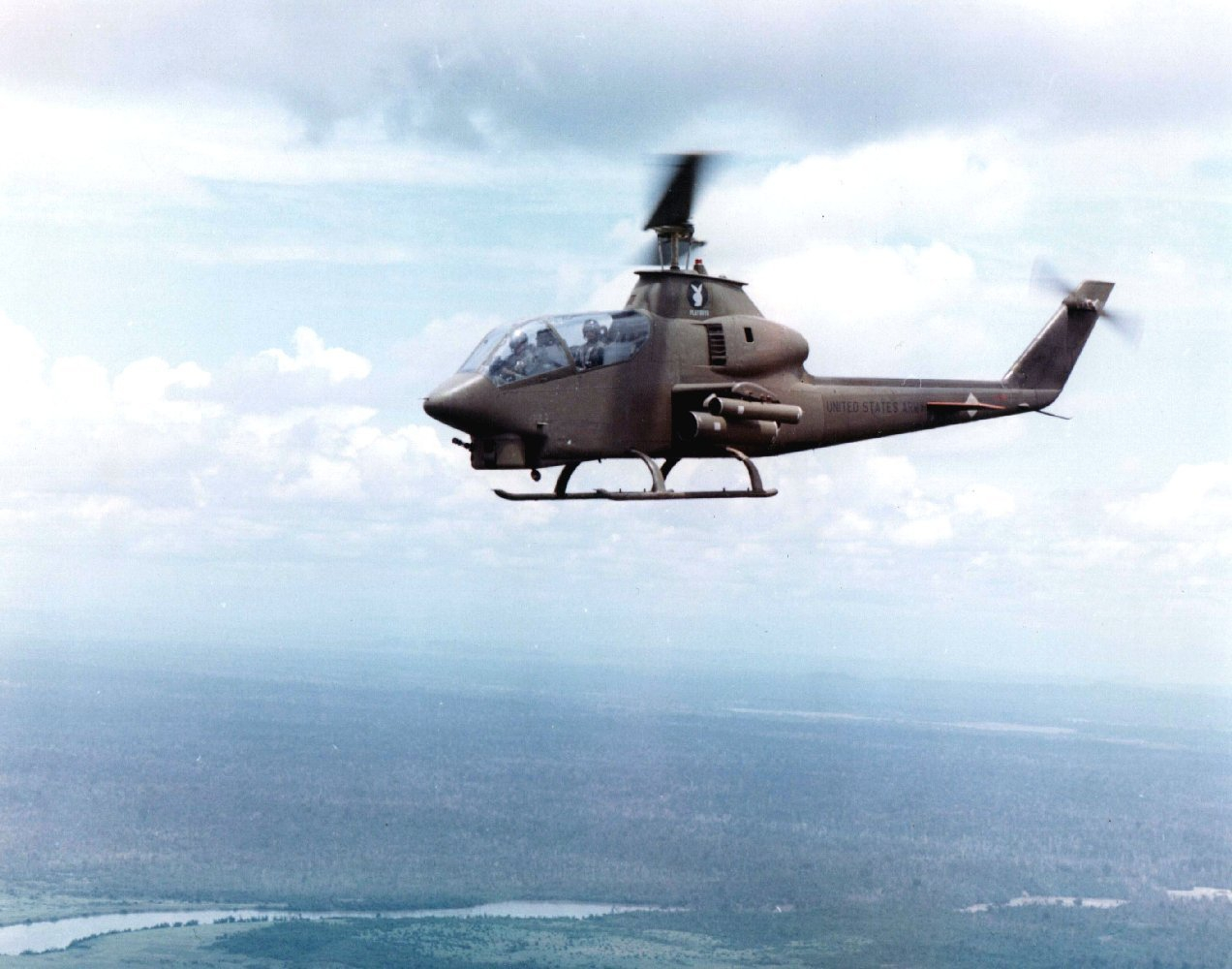 AH-1G Cobra gunship helicopter, 334th Hel. Co., 145th Avn. Bn., Vietnam, 1969.